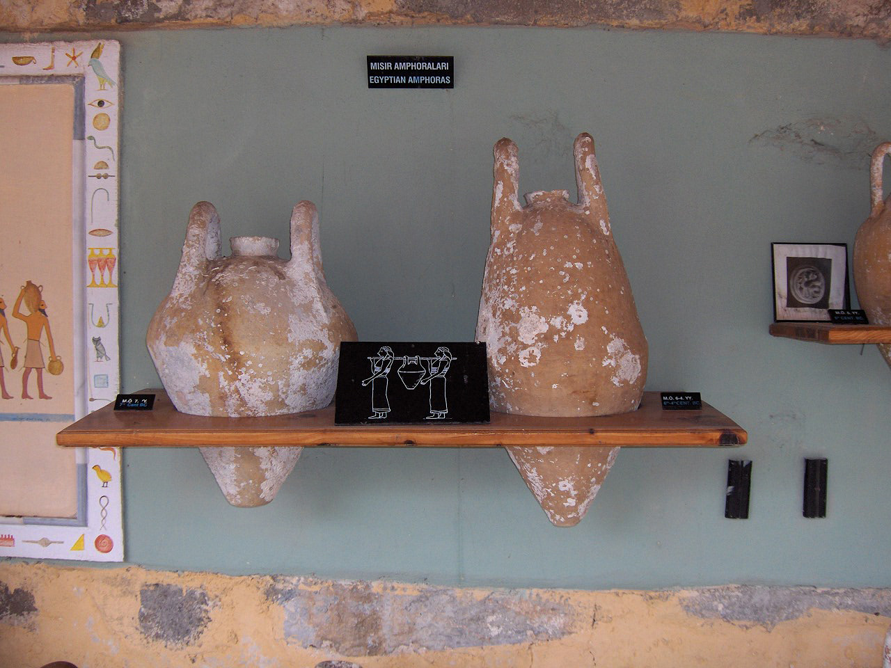 Egyptian amphoras, 6-4th c. BC, St. Peter's castle; Bodrum, Turkey